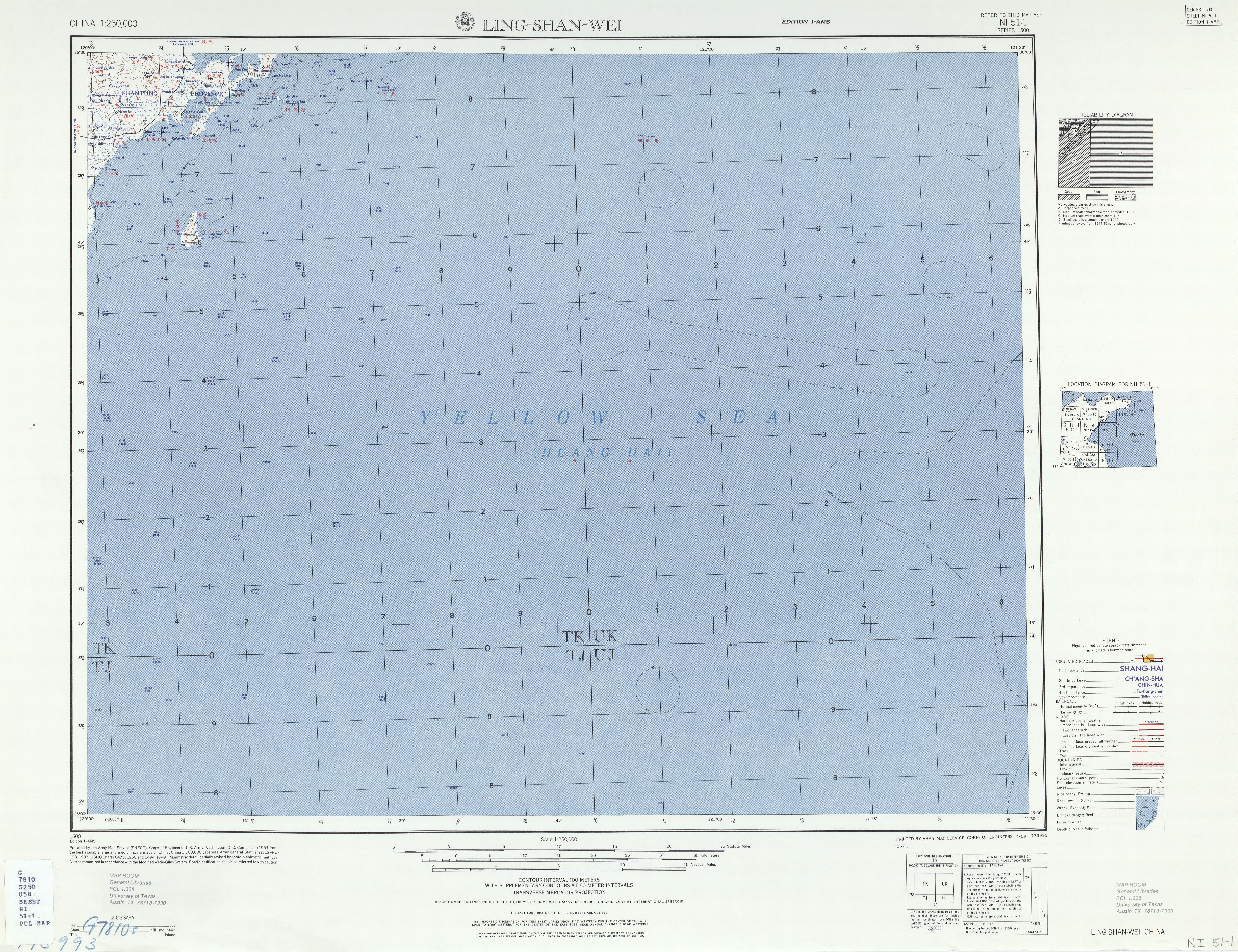 China AMS Topographic Maps series